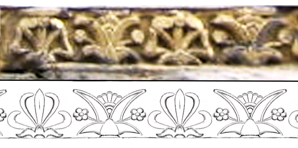 Vajrasana front frieze design. Approximate drawing attached for explanatory purposes.